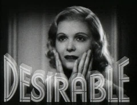 Cropped screenshot of Jean Muir from the trailer for the film Desirable